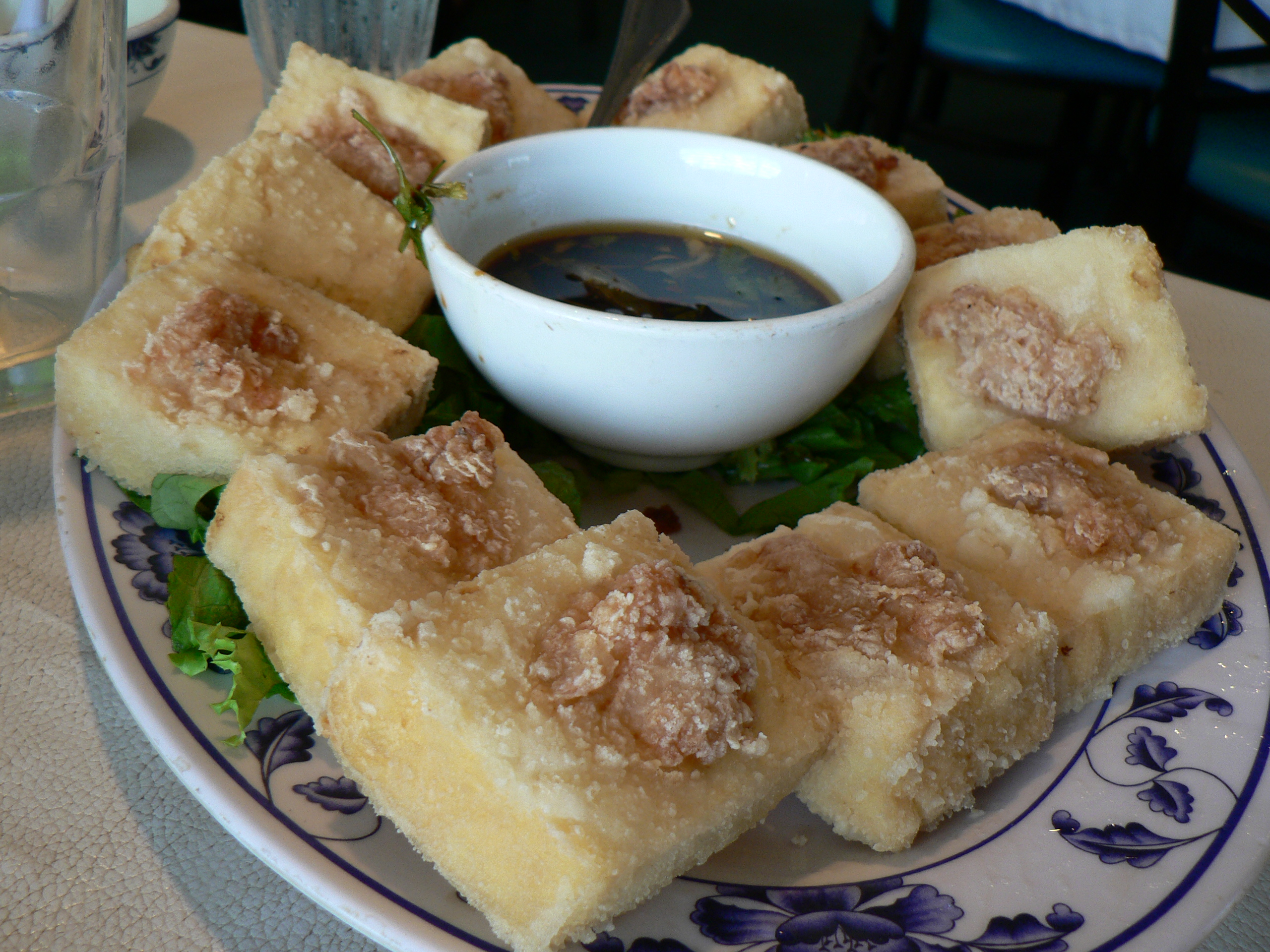 Cantonese fried tofu with shrimp.